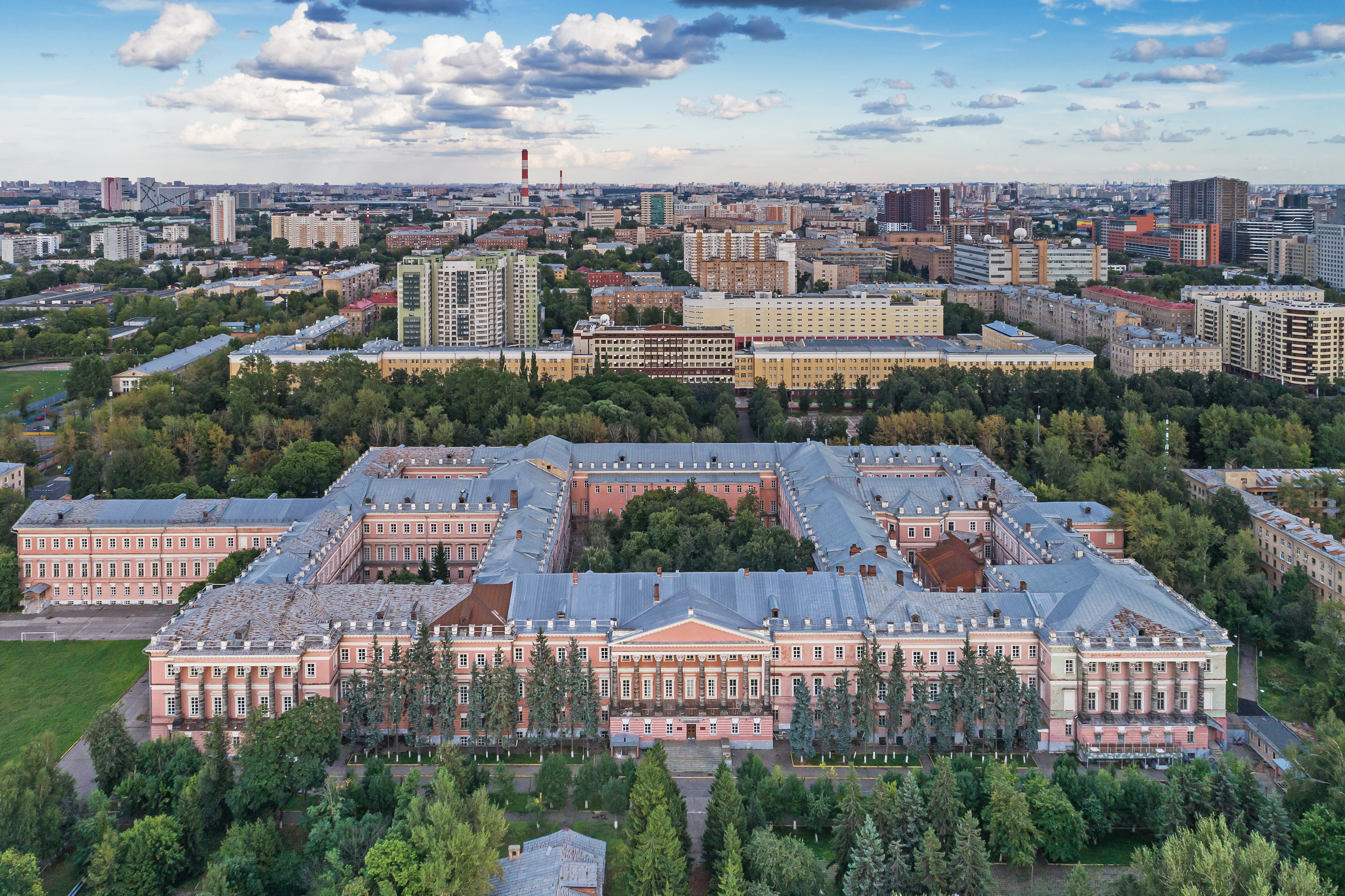 Aerial photo of Catherine Palace in Moscow, Russia.